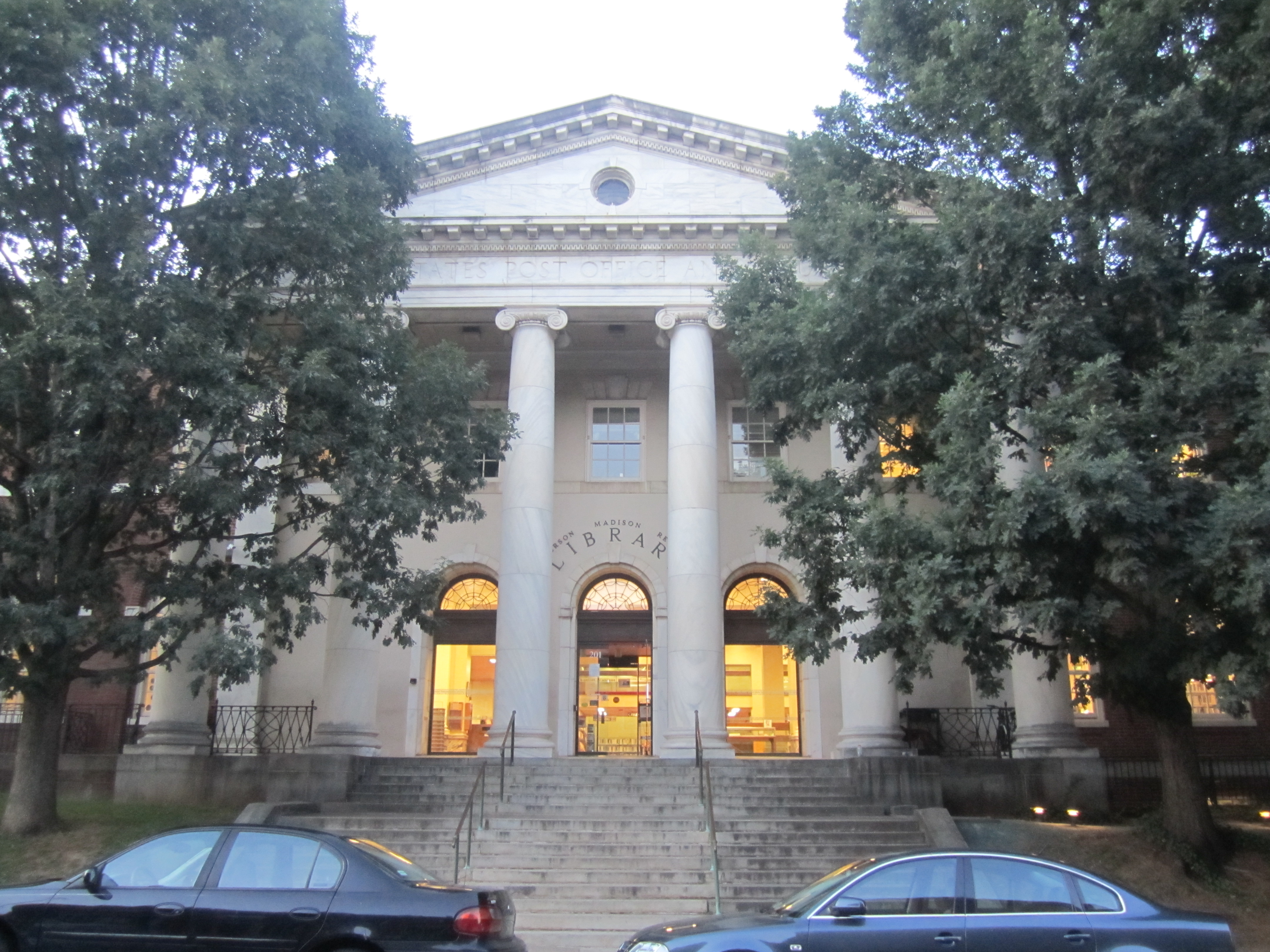 I took photo of library in Charlottesville, VA, with Canon camera.